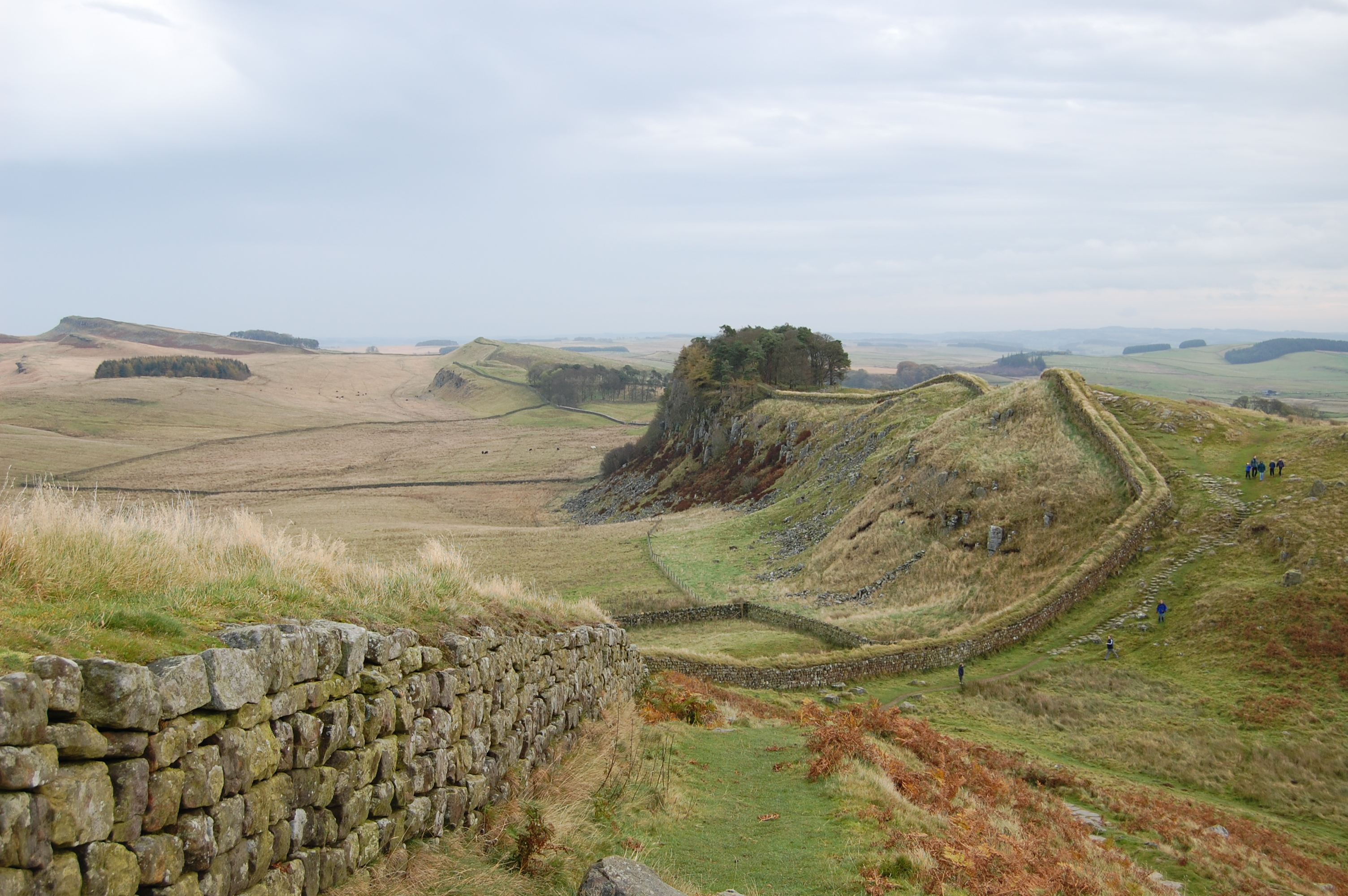 A stretch of Hadrian's Wall about 1 mile west of the Roman Fort near Housesteads.